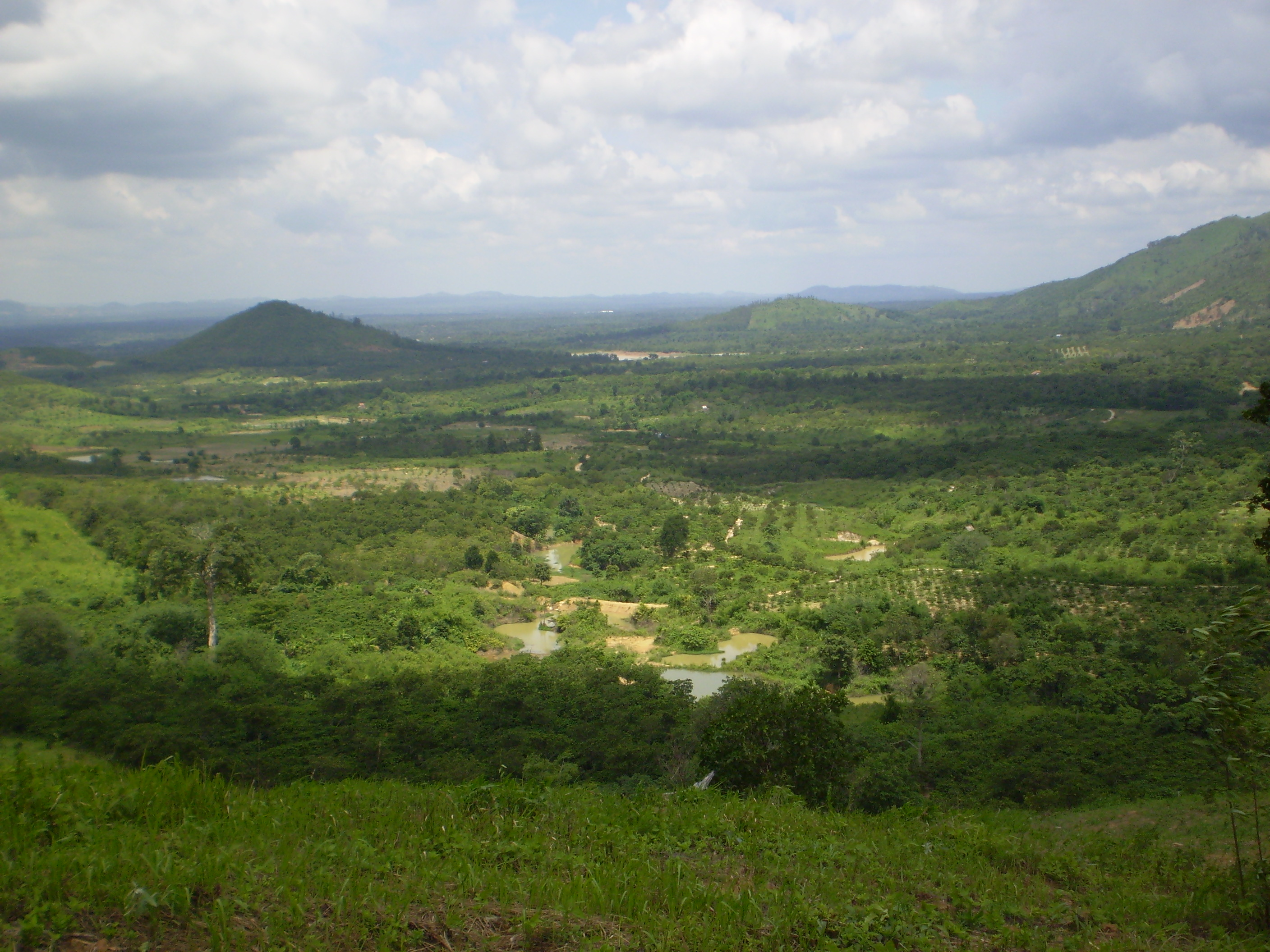 Mountains in Cu EwiTiếng Việt: Núi đồi của xã Cư Ewi